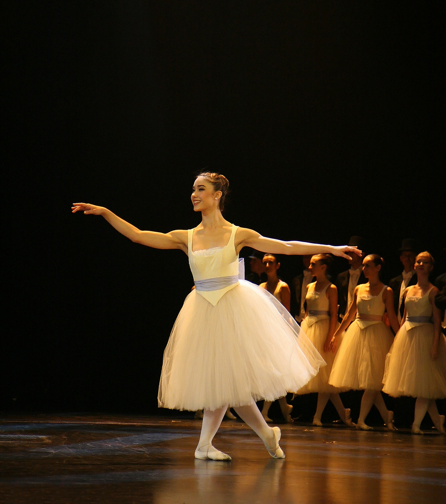 Ida Nowakowska as Meg Giry in the musical "The Phantom of the Opera" in Roma Musical Theatre in Warsaw.